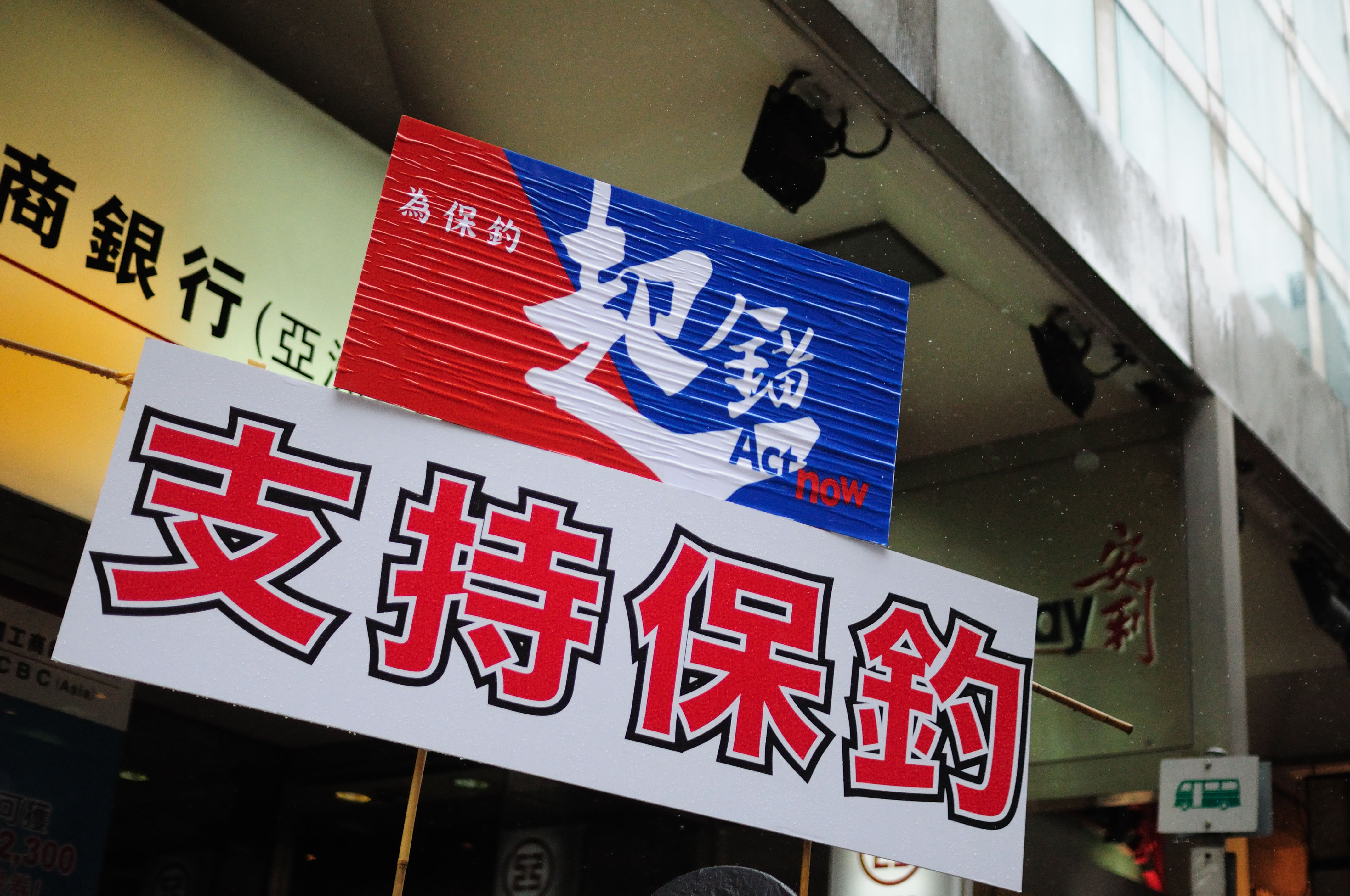 Act now campaign sign HK